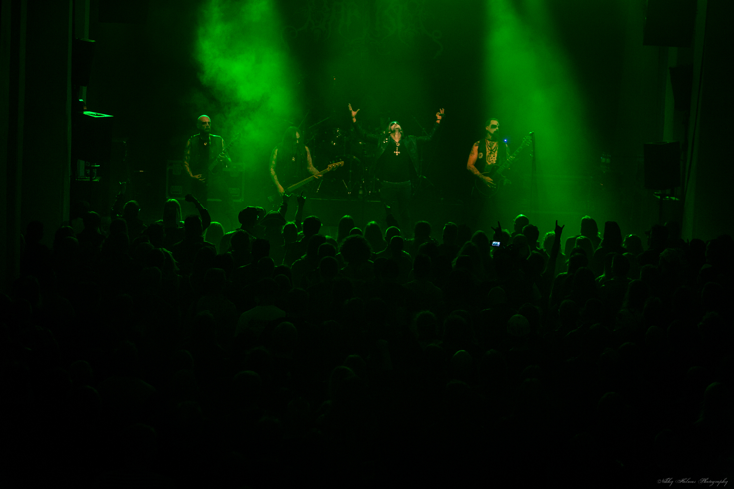 A live photo of the Finnish Black Metal band Baptism, at the Tuska Festival in Helsinki, Finland in 2017